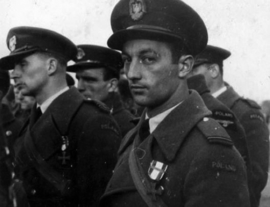 Tadeusz Sawicz of RAF-Polish Air Forces in Great Britain